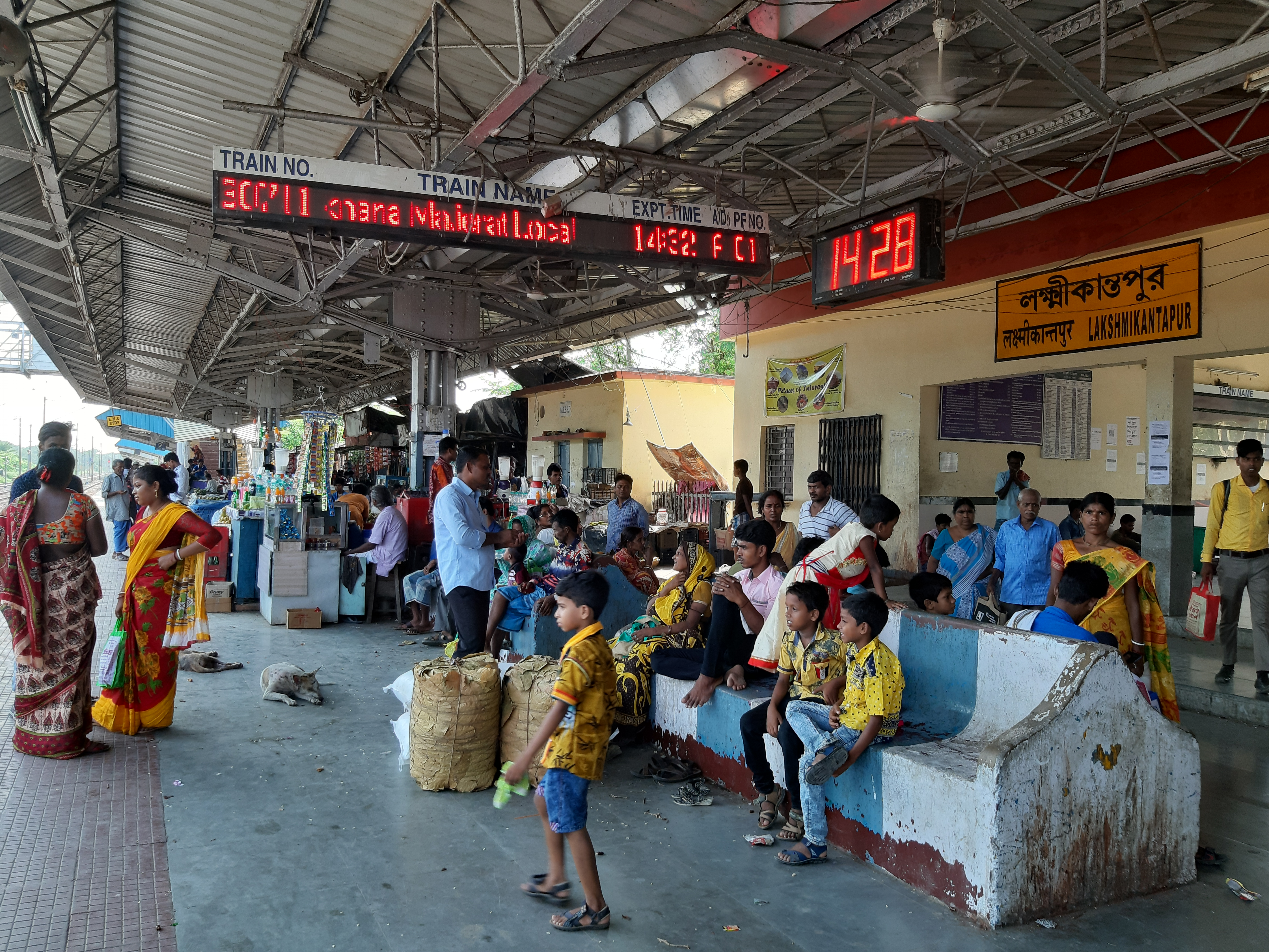 station of Sealdah south section